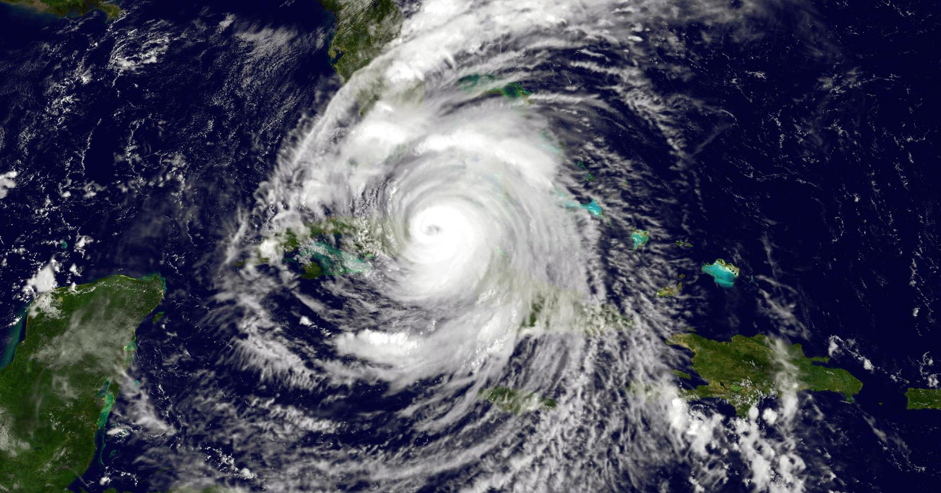 NOAA-NASA GOES Project handout image, GOES satellite shows Hurricane Irma as it moves over Cuba and towards the Florida coast as a category 4 storm in the Caribbean Sea taken at 14:15 UTC on September 9, 2017.